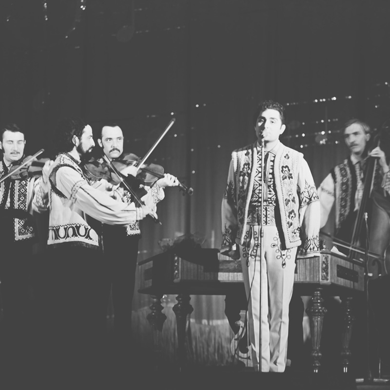 Nicolae Sulac was a famous musician from Moldova (70-ies).Sulac in Chernivtsi.